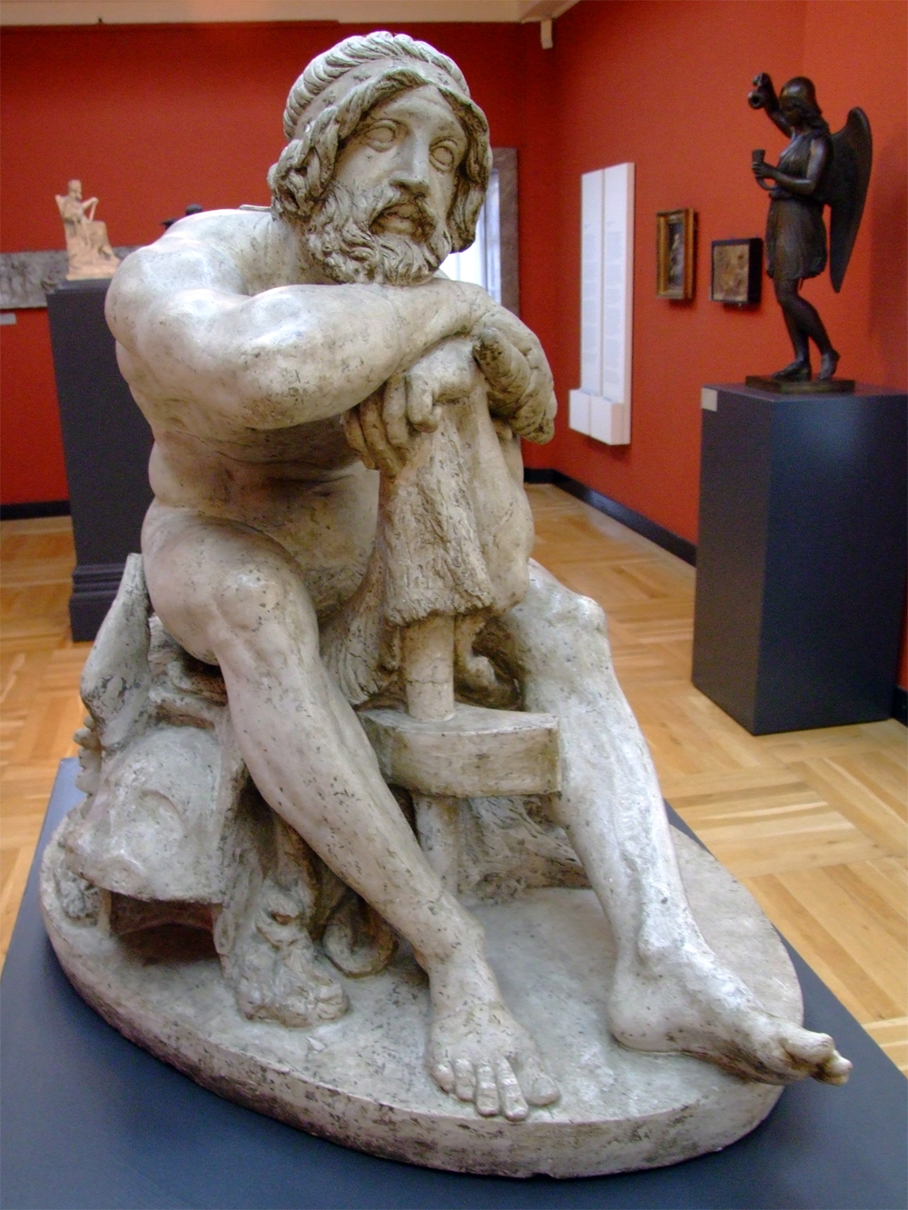 A photograph of "Thor" (1829) by H. E. Freund, housed at the Ny Carlsberg Glyptotek, Copenhagen, Denmark.